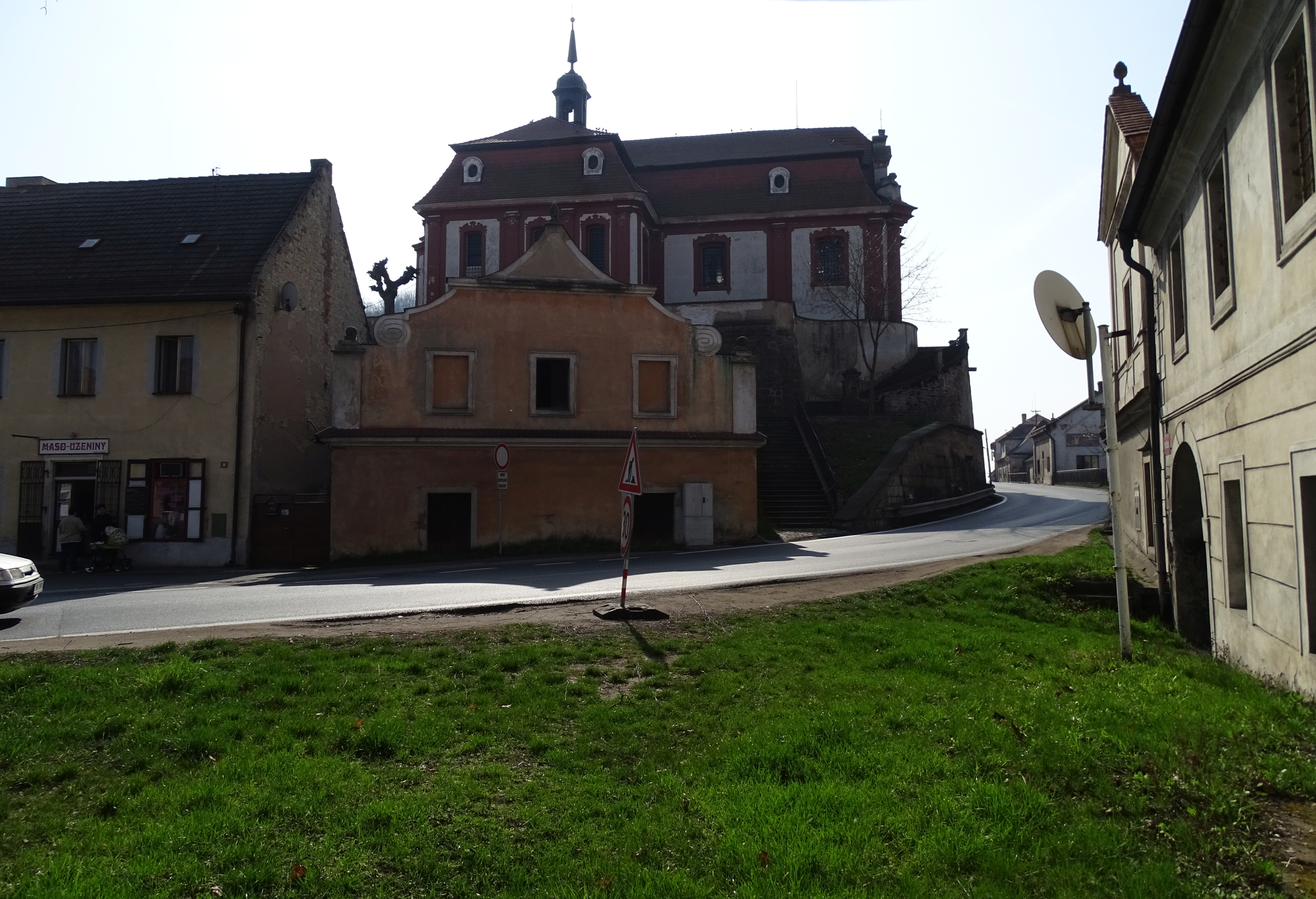 Liběchov, Mělník District, Central Bohemian Region, Czech Republic. The church of Saint Gall.